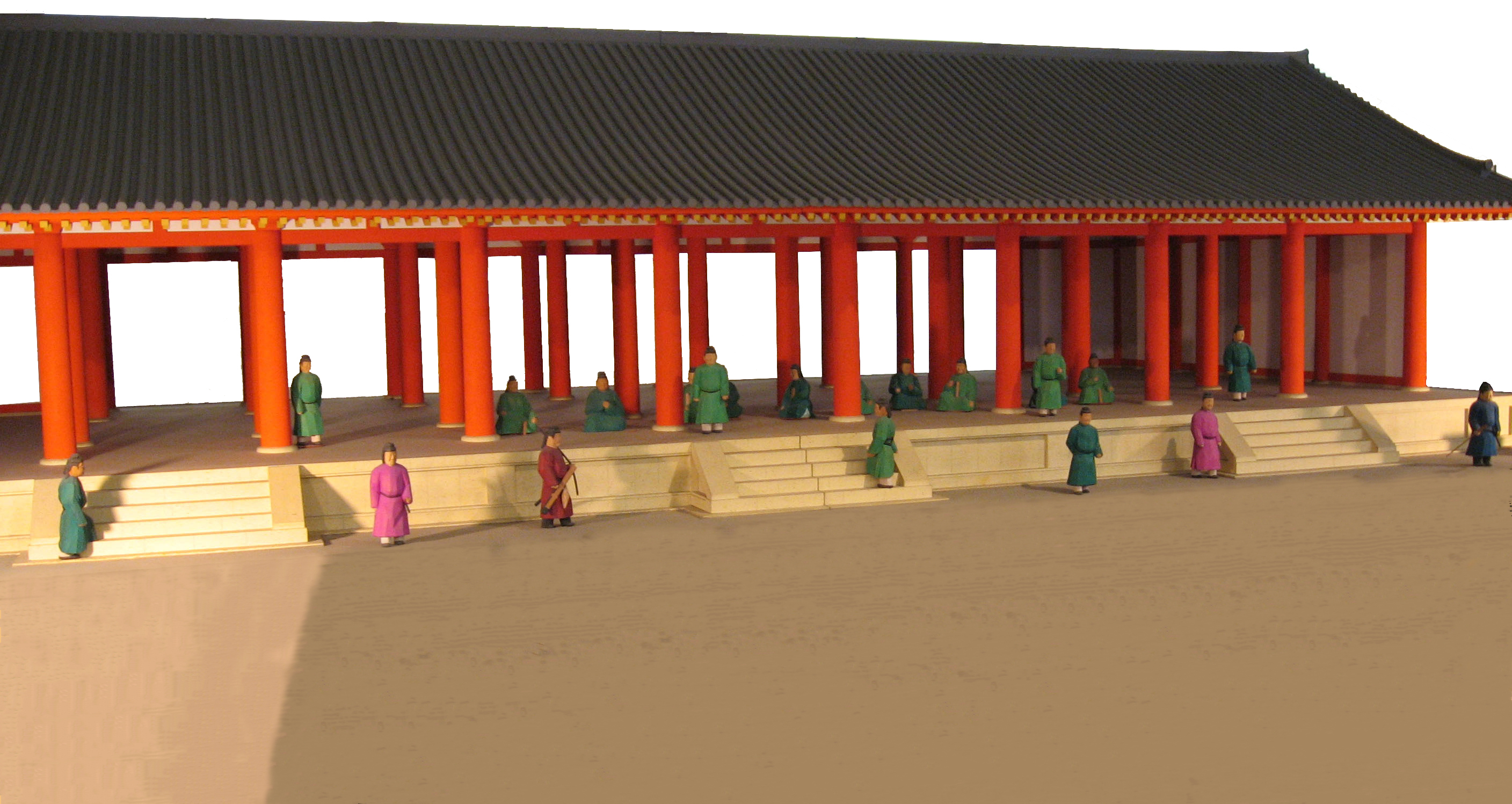 Scale model of Choshuden, Heijokyo (from the collection of the Nara Palace Site Museum)